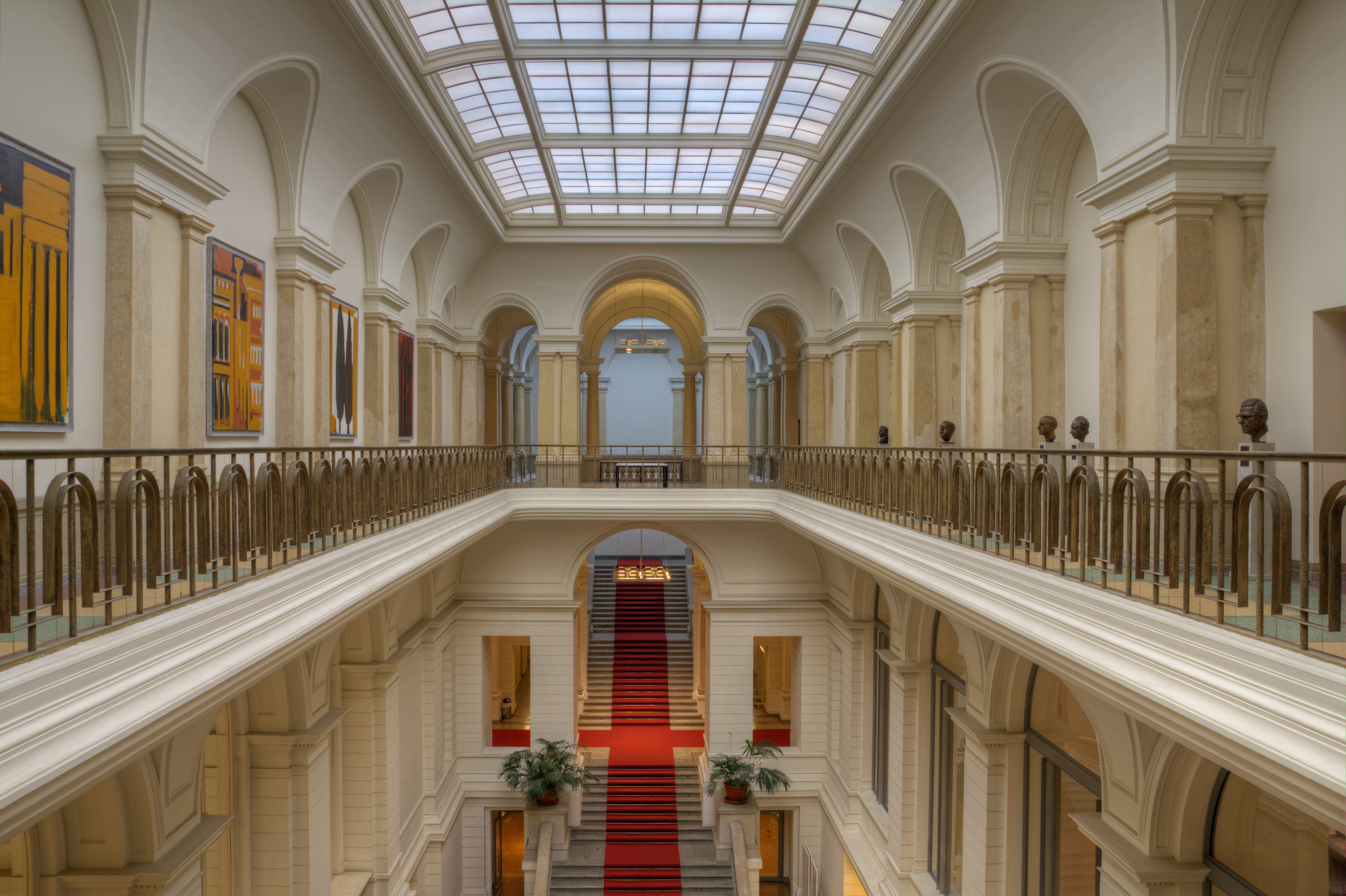 Prussian Landtag, Niederkirchnerstr. 5, Berlin, Germany. Today this building is the residence of the parliament of the State of Berlin. Interiors of the building.